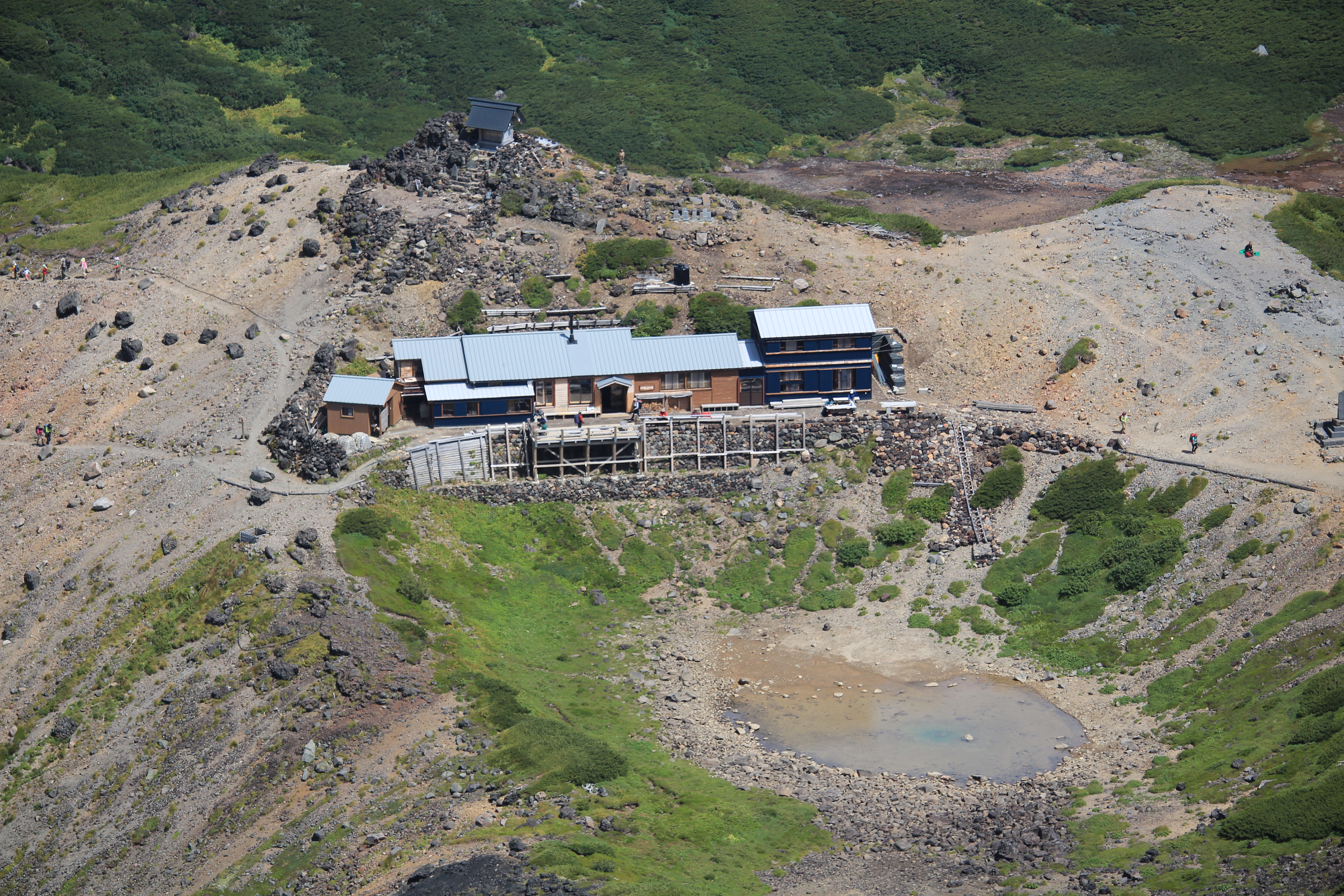 Hida peak of Mount Ontake, Gonoikegoya (Mountain hut) near Gonoike, in Japan.